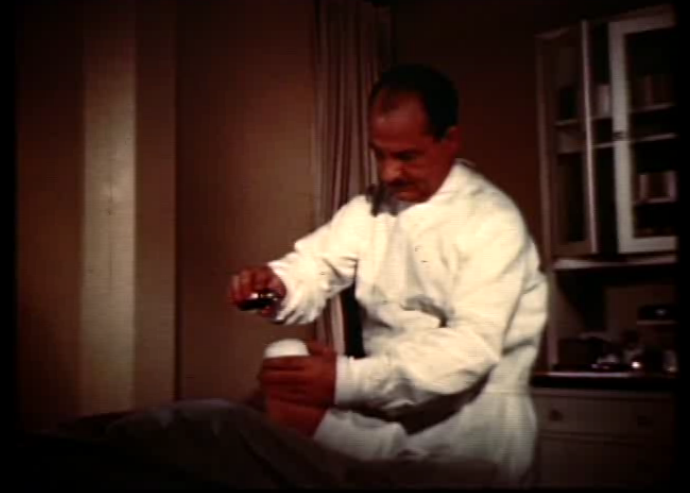 Dr. Rovenstine administers an anesthetic